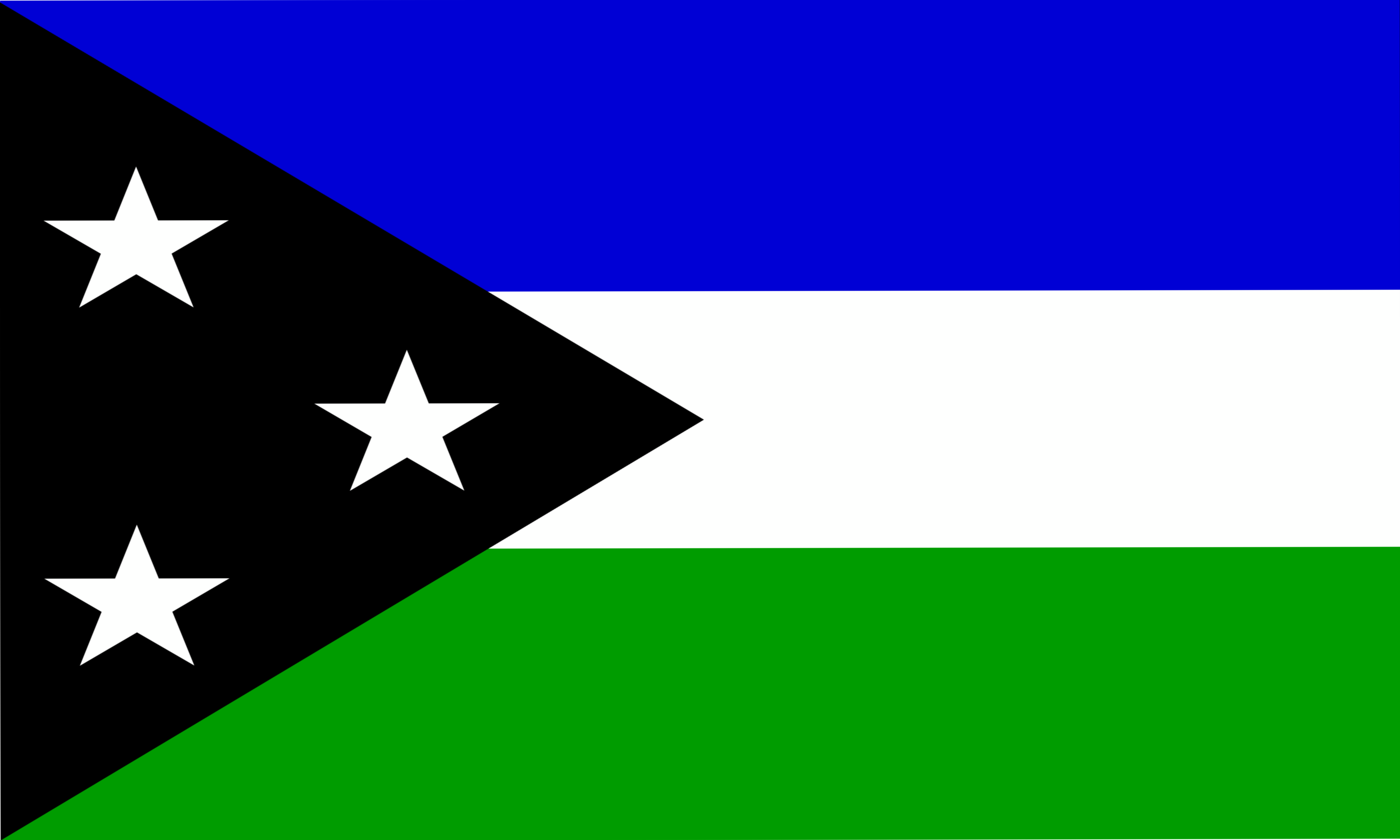 Flag of the Kamtapur Liberation Organisation (KLO) in India.